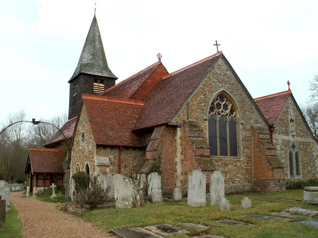 St. Peter's church, Great Totham, Essex. Originally built in the 14th century with later additions such as the north aisle built by F. Clarke in 1878.